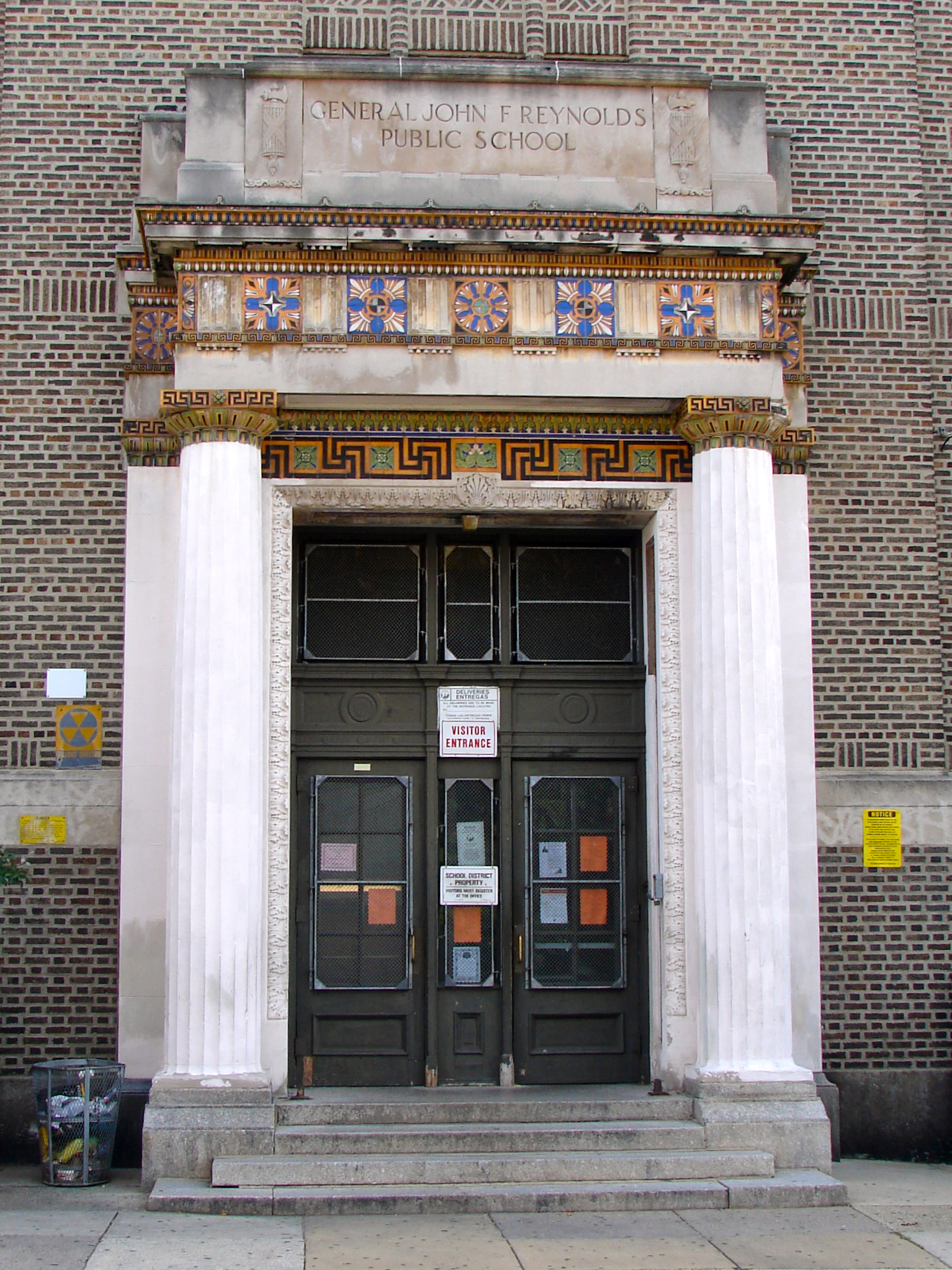 Gen. John F. Reynolds School in Philadelphia, on the NRHP since November 18, 1988. At 2300 Jefferson St. in the North Central neighborhood of North Philly.